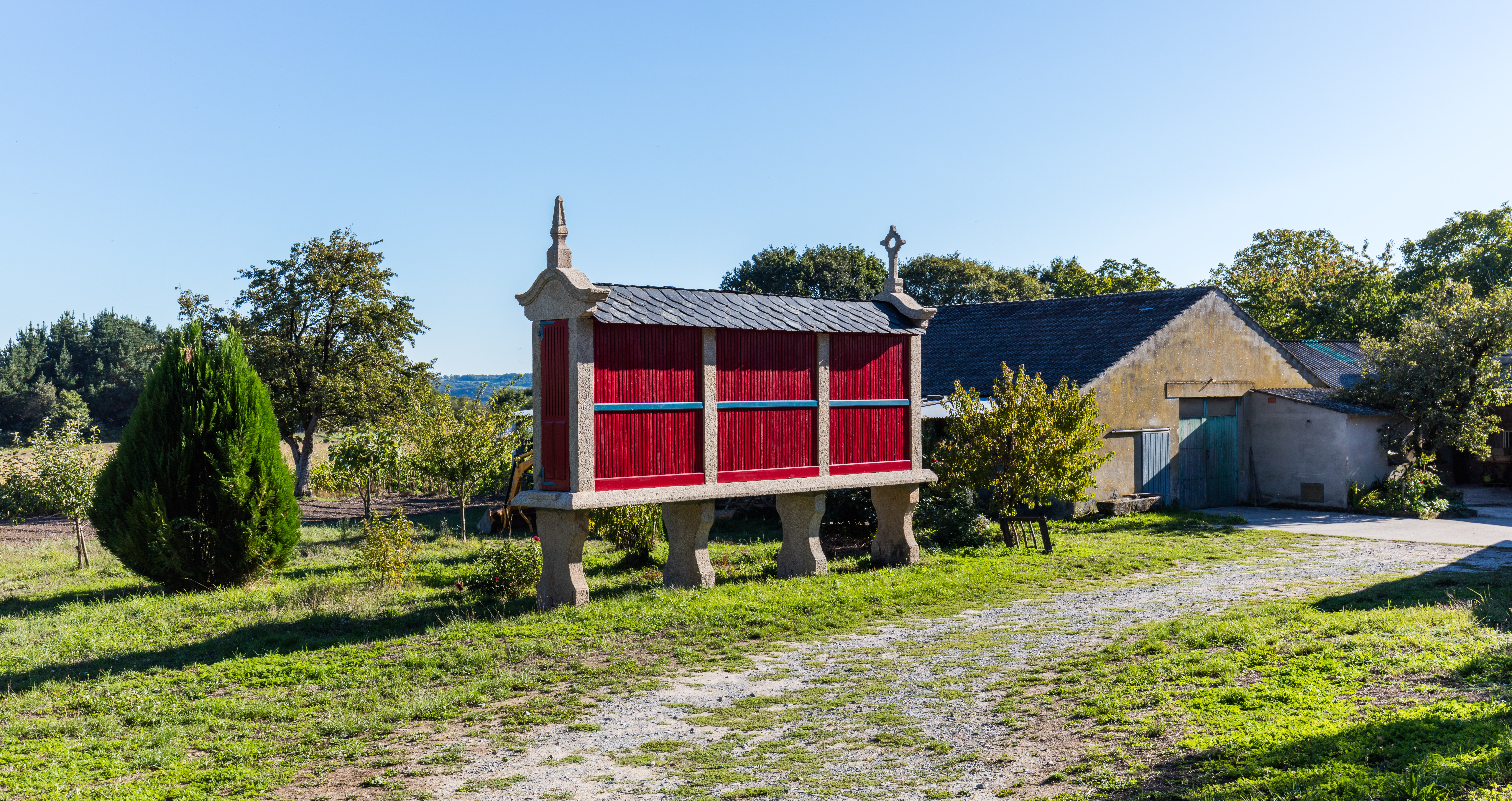 Hórreo, Vilei, St James's Way, Lugo, Spain